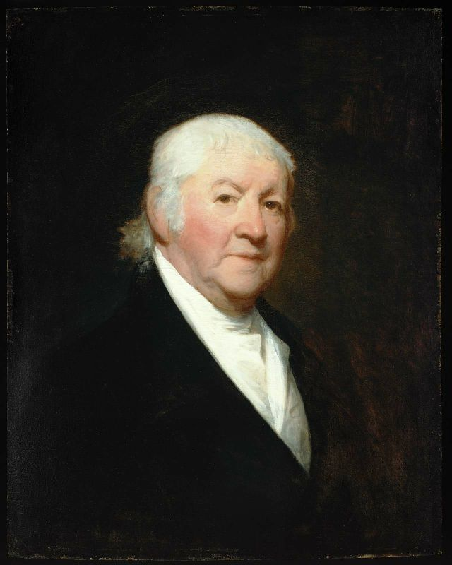 This is an oil on panel painting by Gilbert Stuart of Paul Revere. It was painted in 1813, when Revere was about 78 years old.